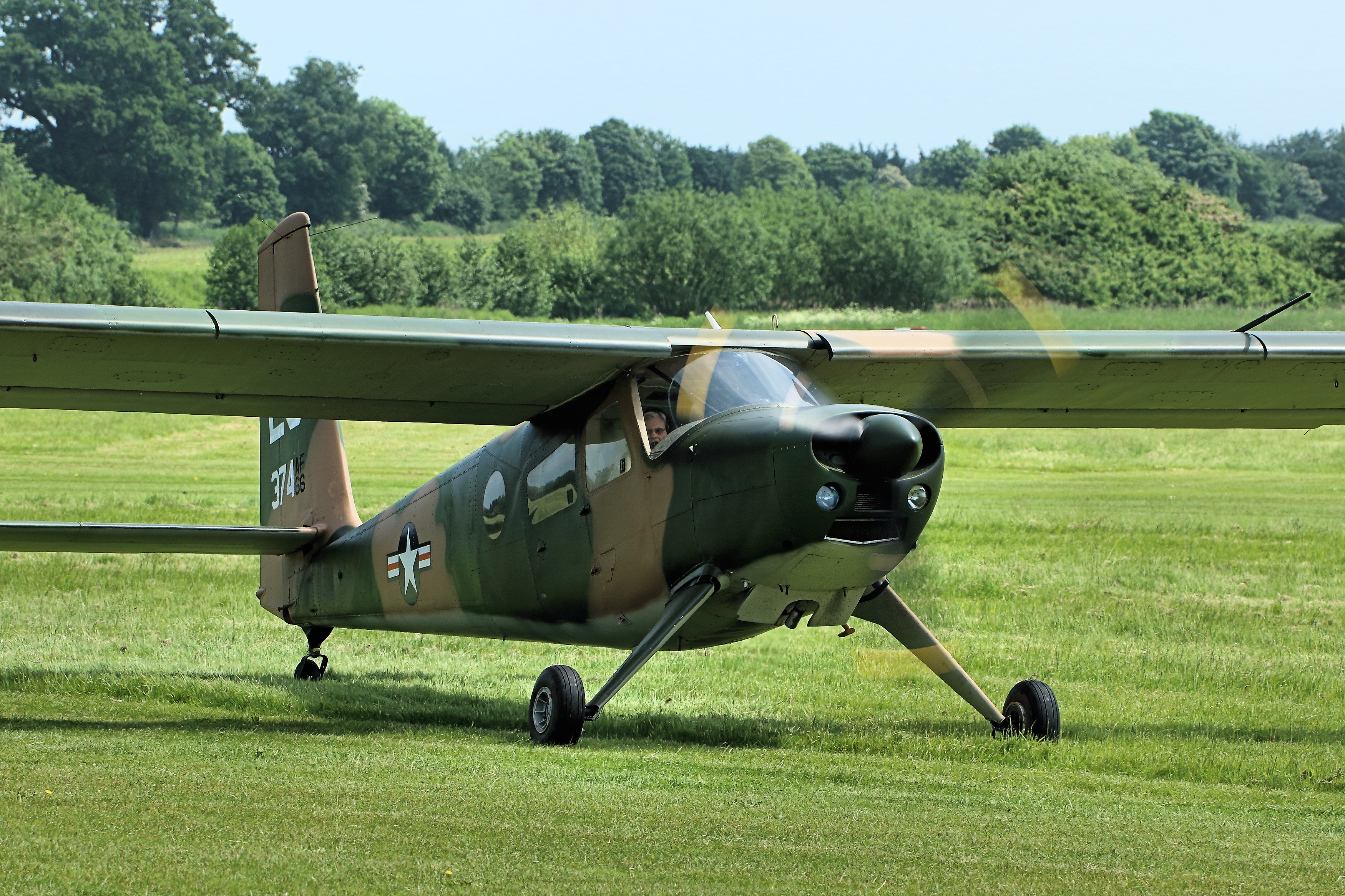 Helio H-295-1200 Super Courier - Fly Navy Day 2016